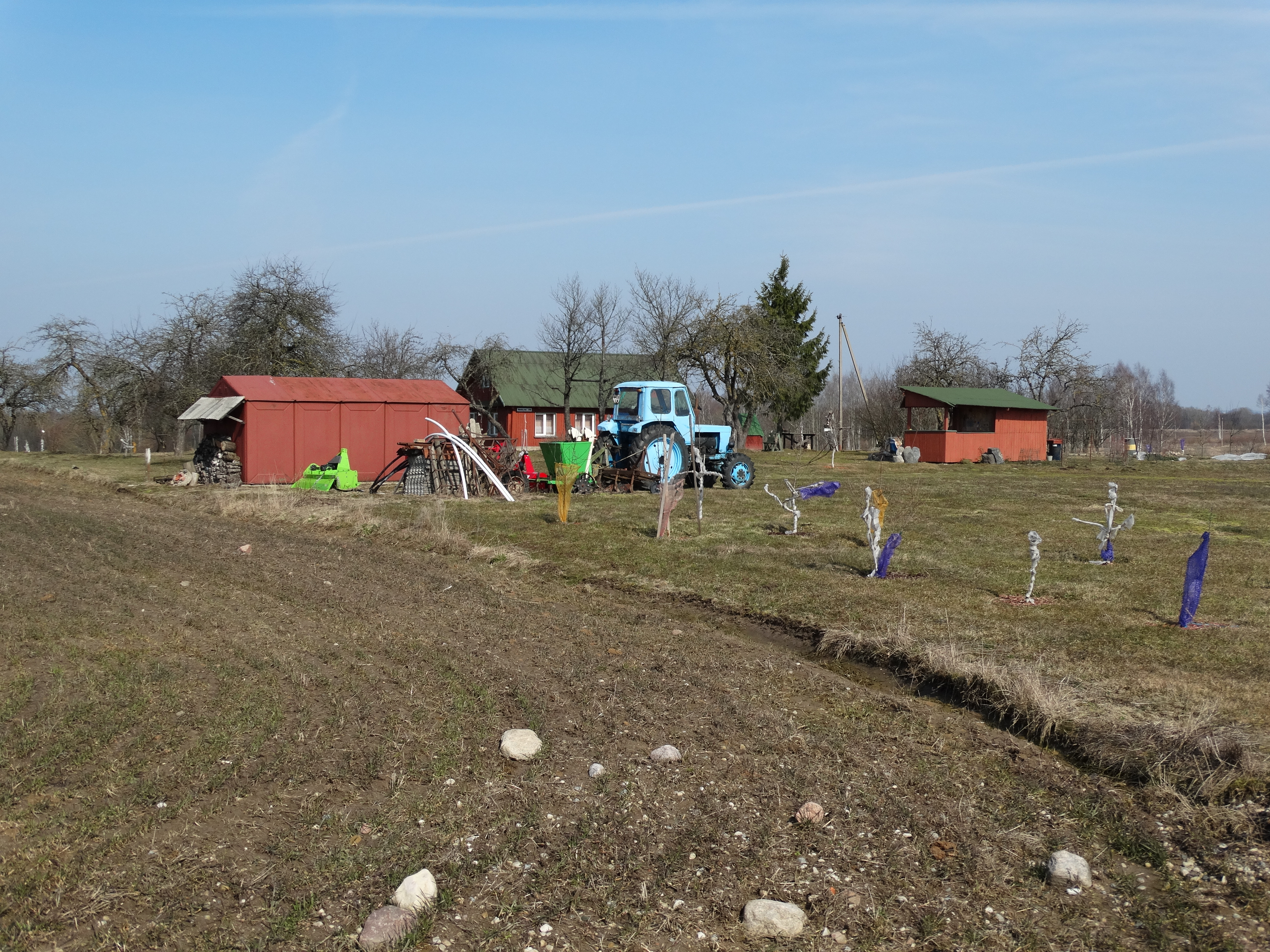 Antakalnis I, Ukmergė district, Lithuania